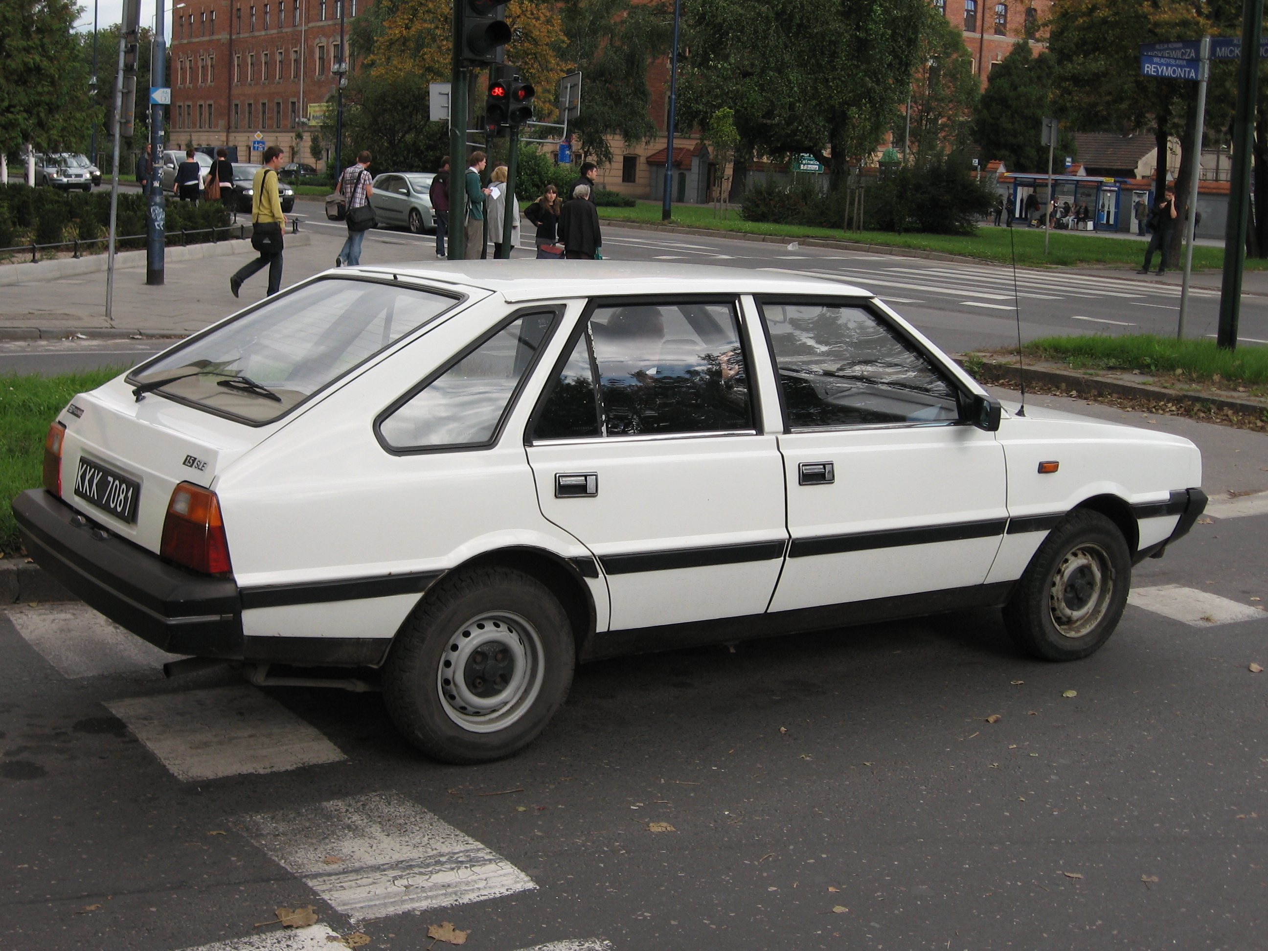 FSO Polonez MR'89 1.5 SLE on Reymonta street in Kraków.